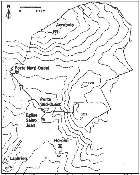 Plan des fortifications de Calydon d'après la carte publiée par Fr. Poulsen et K. Rhomaios, dans Erster Vorlaüfiger Bericht über die Dänisch-Griechischen Ausgrabungen von Kalydon, Taf. I. (1928).